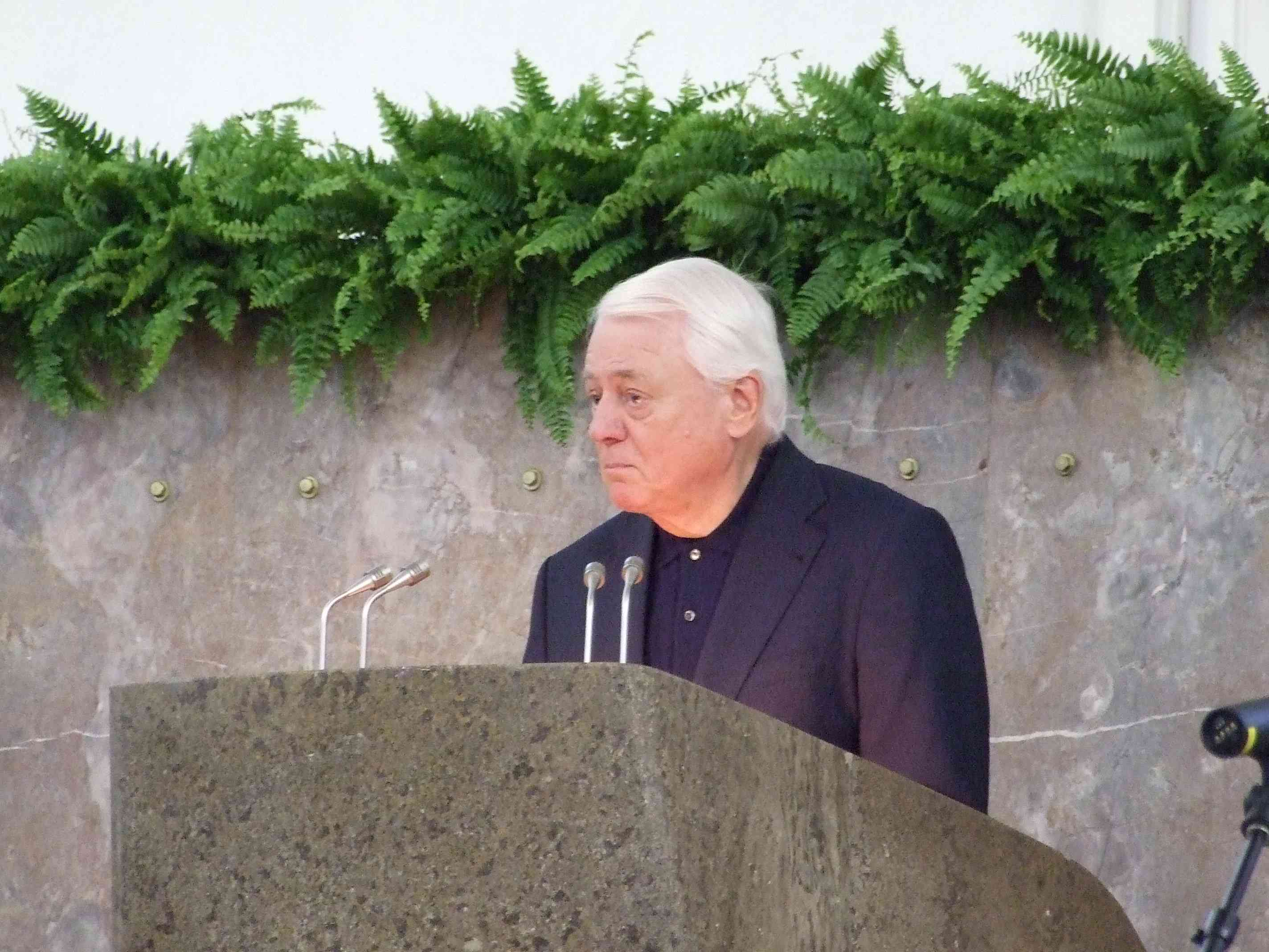 Alexander Kluge during his speech, about "Theodor-W.-Adorno-Preis" (2009), at Paulskirche in Frankfurt am Main